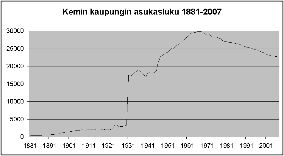 Development of population in Kemi 1881-2007